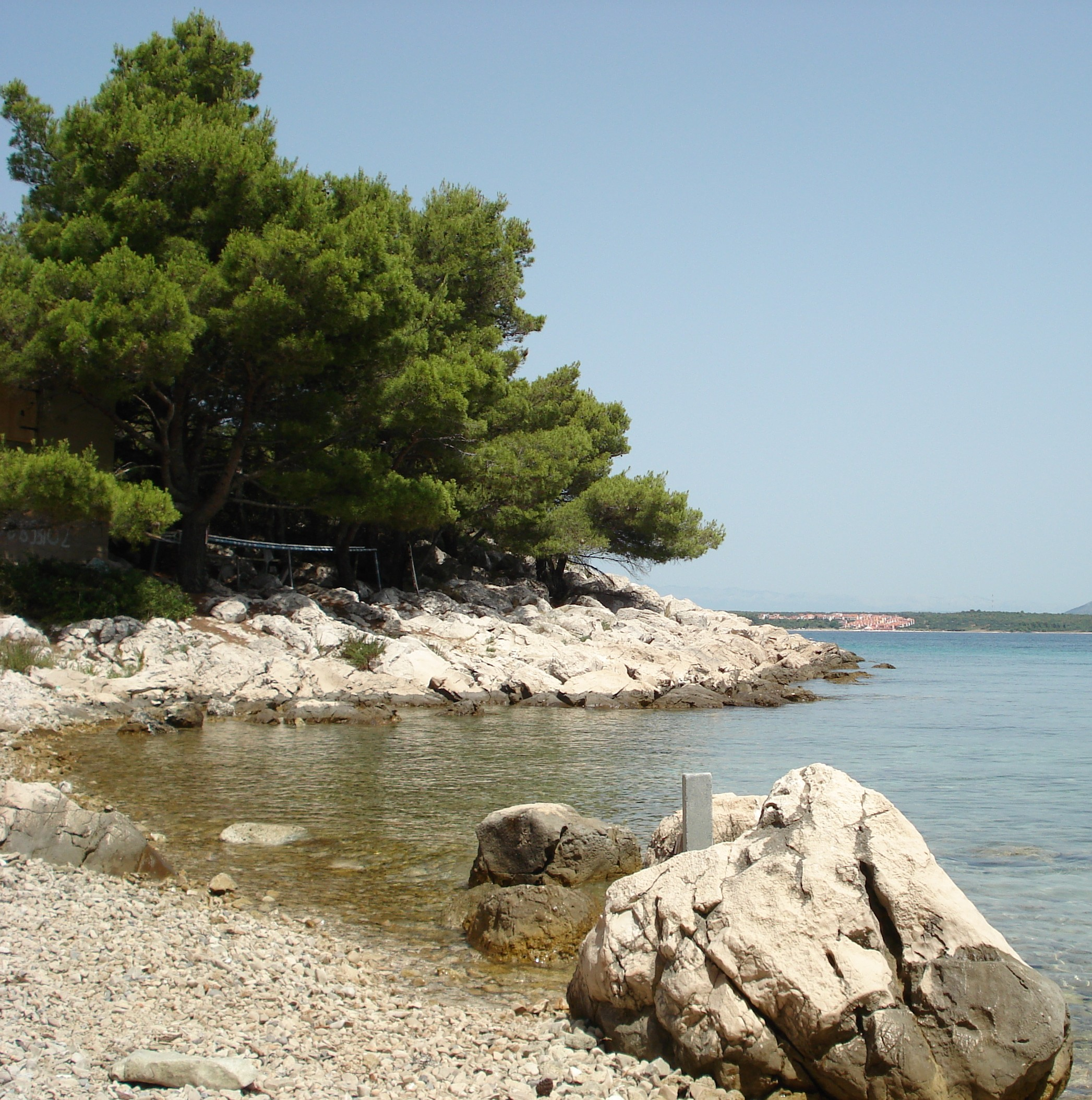 Pasman, Croatia